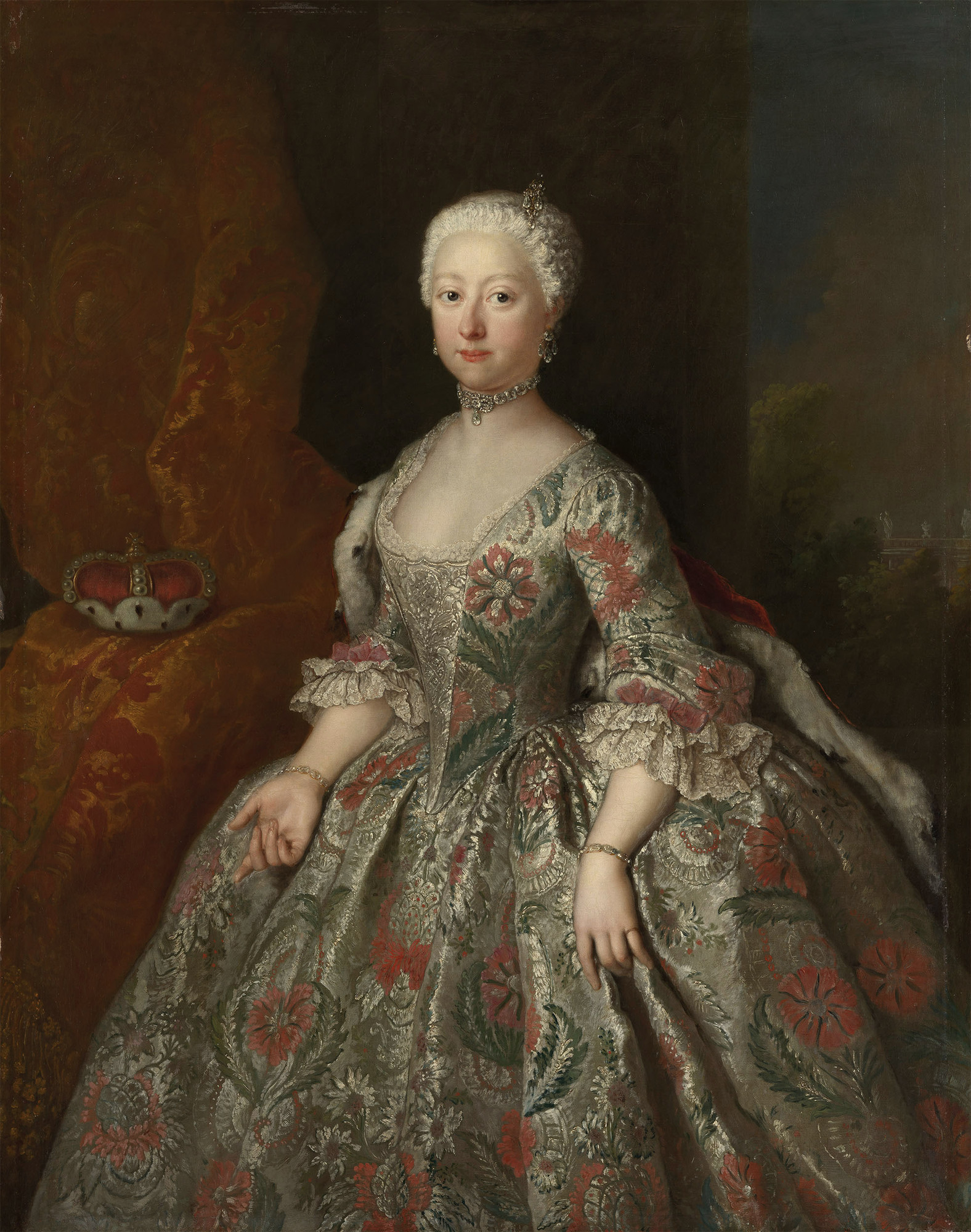 Portrait of Fredericka of Saxe-Gotha-Altenburg (1715-1775), Duchess of Saxe-Weissenfels. Three-quarter-length, standing, facing half left, looking to the viewer; wearing a floral silver dress w lace at elbows, red ermine-lined cloak & diamond jewellery; her crown rests on draped ledge on left; teraced gardens to rear right.